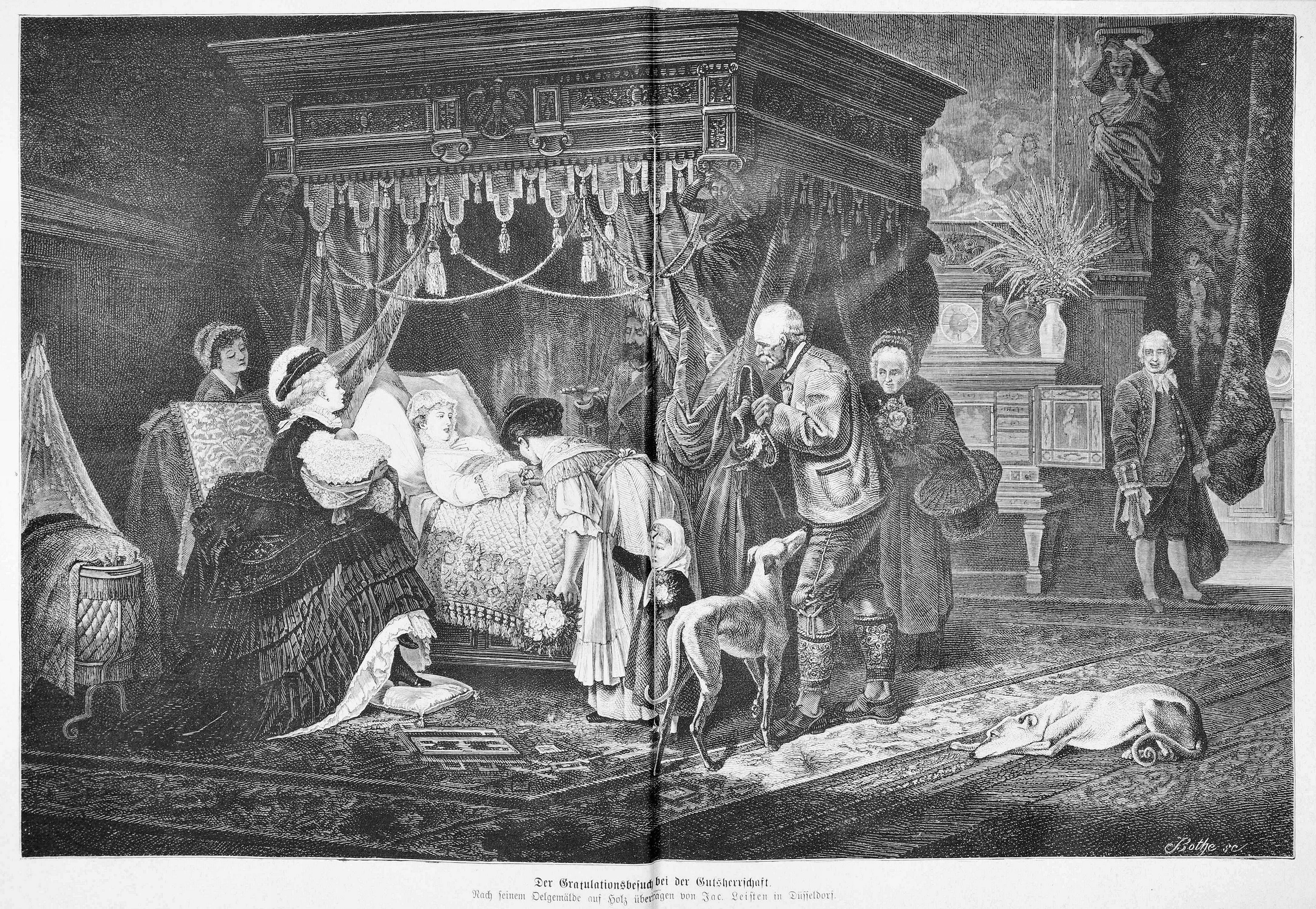 caption: "Der Gratulationsbesuch bei der Gutsherrschaft. Nach seinem Oelgemälde auf Holz übertragen von Jac. Leisten in Düsseldorf."